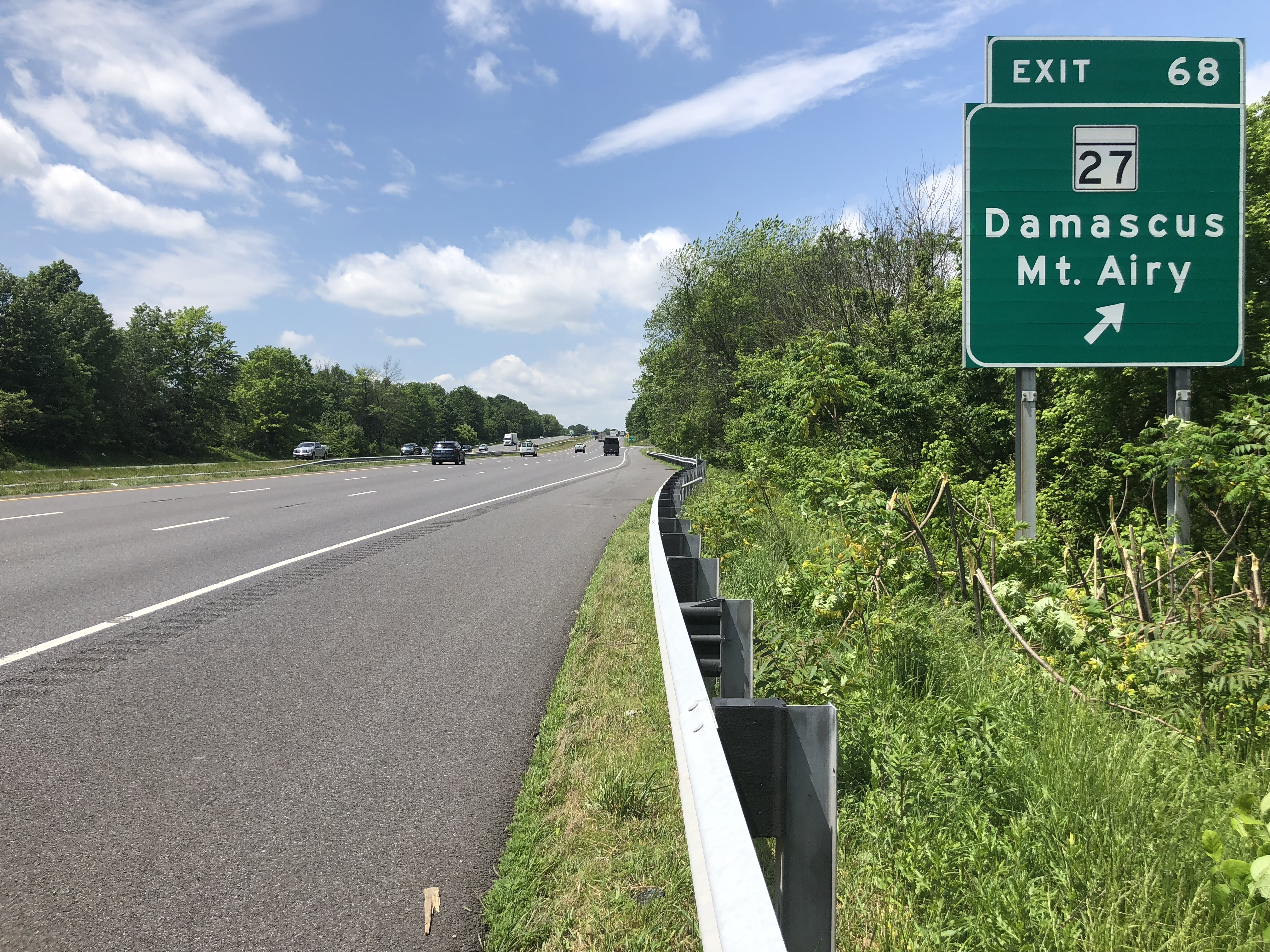 View west along Interstate 70 and U.S. Route 40 (Baltimore National Pike) at Exit 68 (Maryland State Route 27, Damascus, Mount Airy) in Mount Airy, Carroll County, Maryland